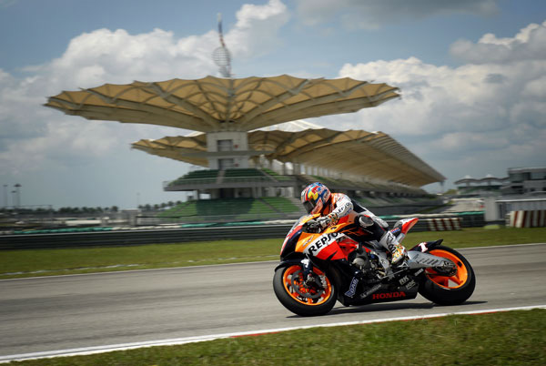 Repsol Honda team during Motogp 800cc Test, November 06 at Sepang circuit, Malaysia.